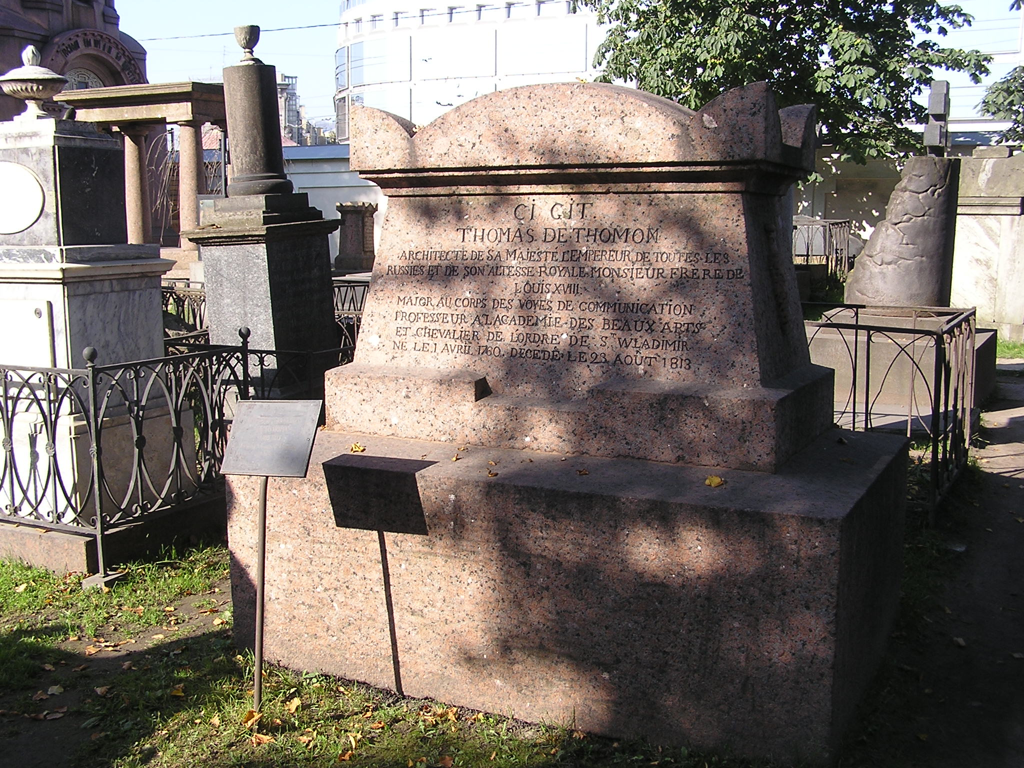 Lazarev Cemetery